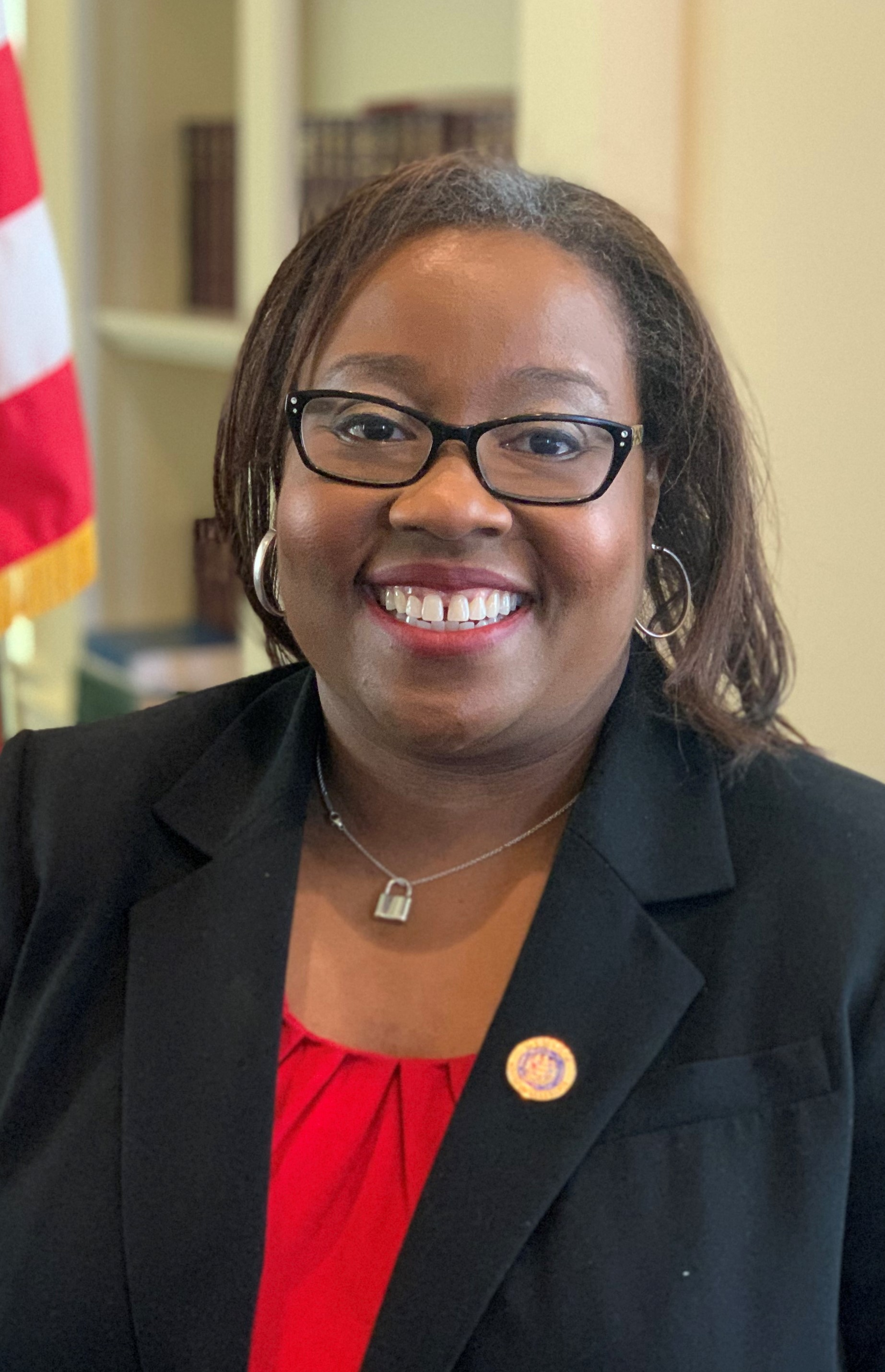 This is an image of Delegate Williams in the Maryland House of Delegates